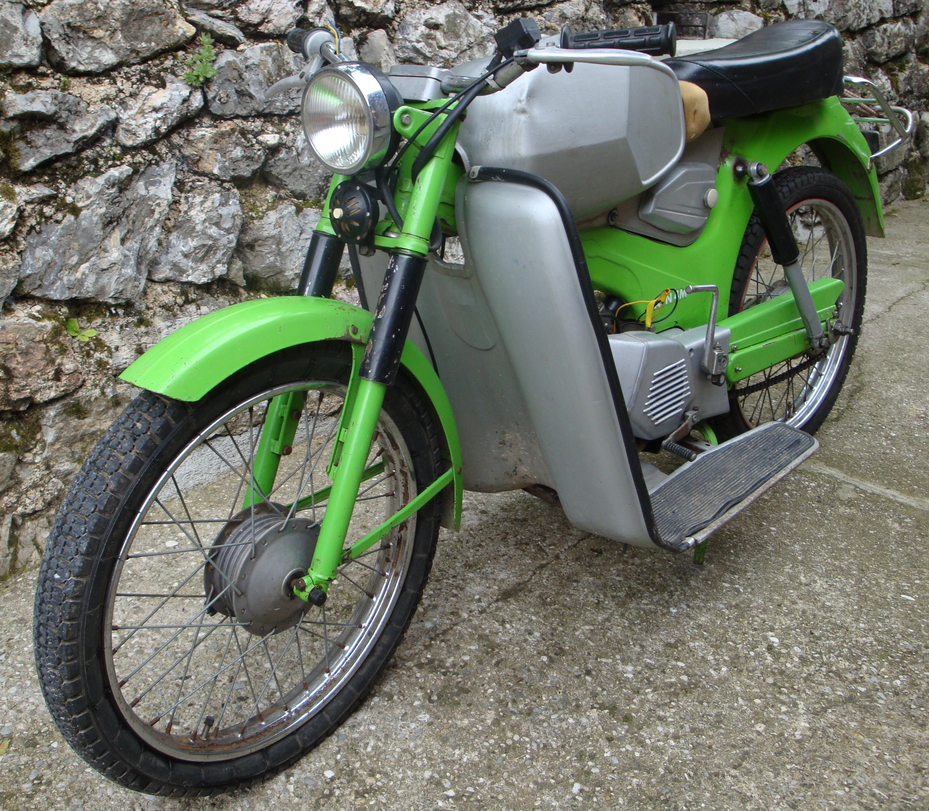 TOMOS APN 4M moped (1981 production)